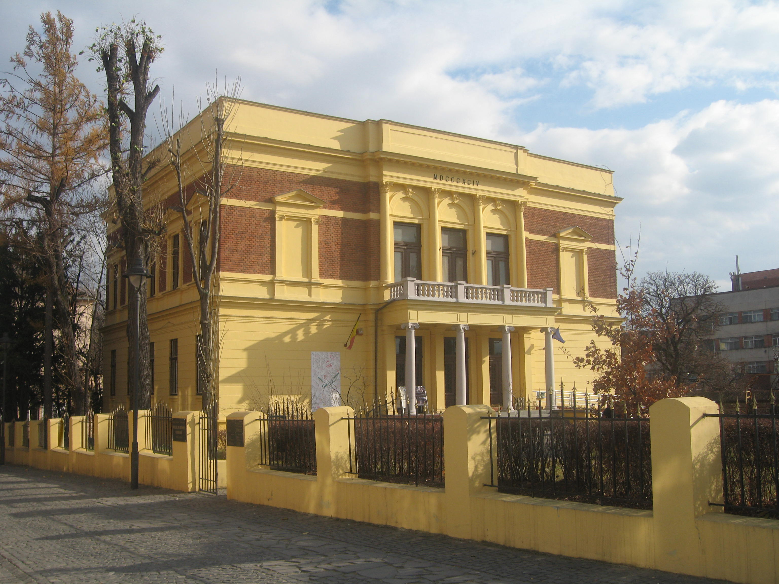 Muzeul de Istorie Naturala din Sibiu